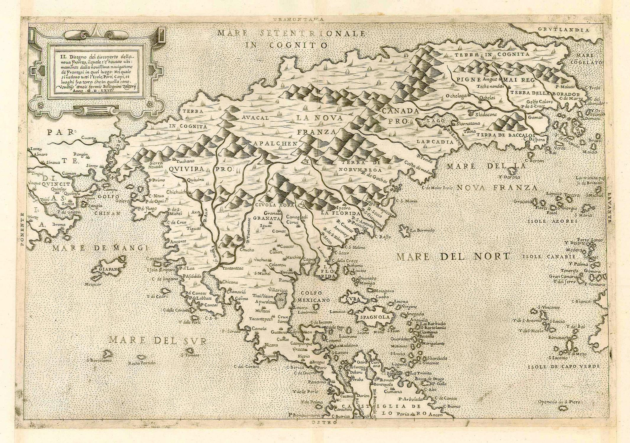 One of the earliest dated depictions of the Strait of Anian separating Asia and North America, from a copper engraving by Paolo Forlani formerly credited to Bolognino Zaltieri from his engraving on its plates "Venetijs Aenis Formis Bolognini Zalterij Anno M.D.LXVI." N° de réf. du libraire 00897. 28 x 40.5cm (10.9 x 15.8 inches).